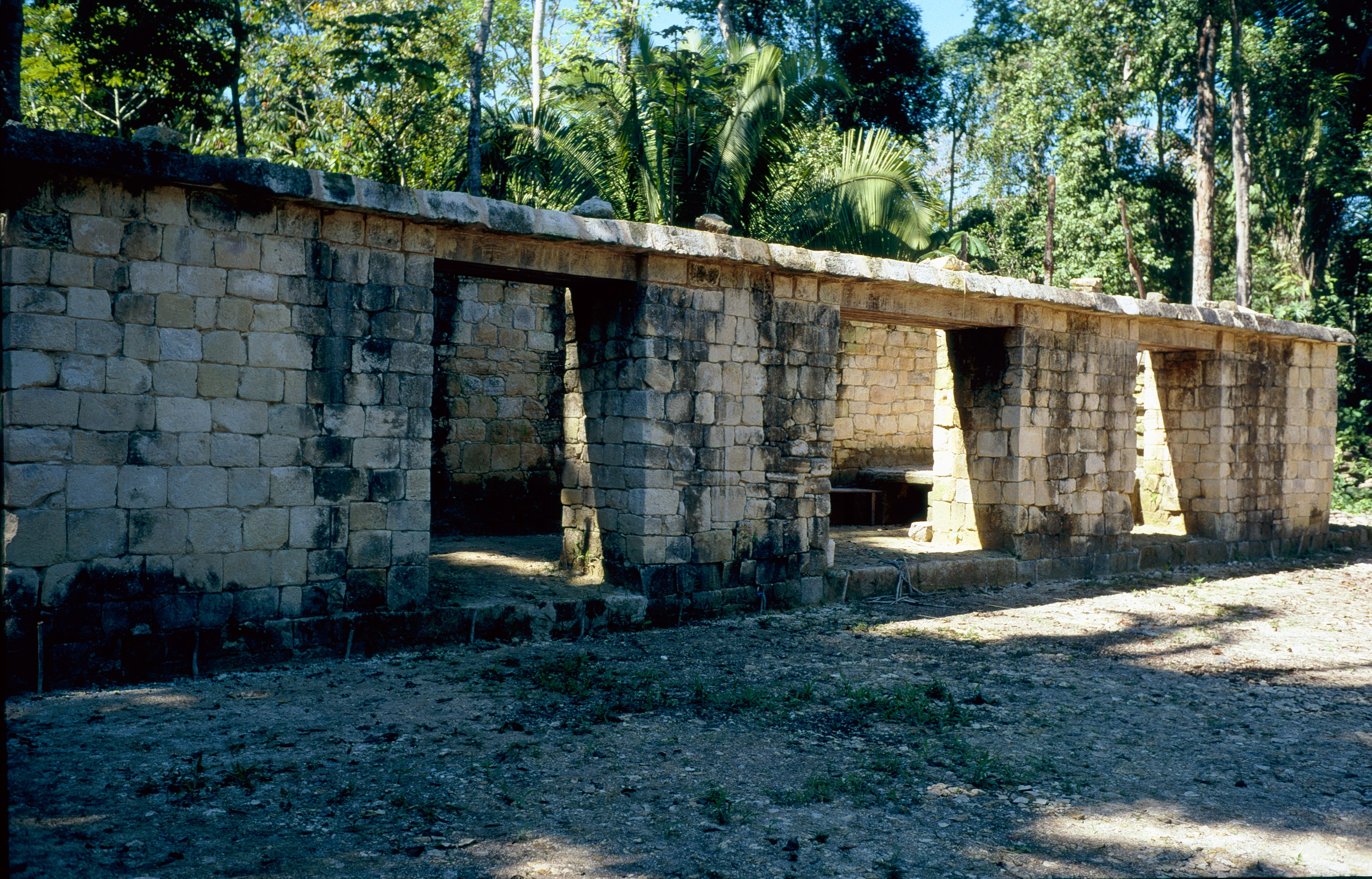 Aguateca, Peten, Guatemala: building M7-32